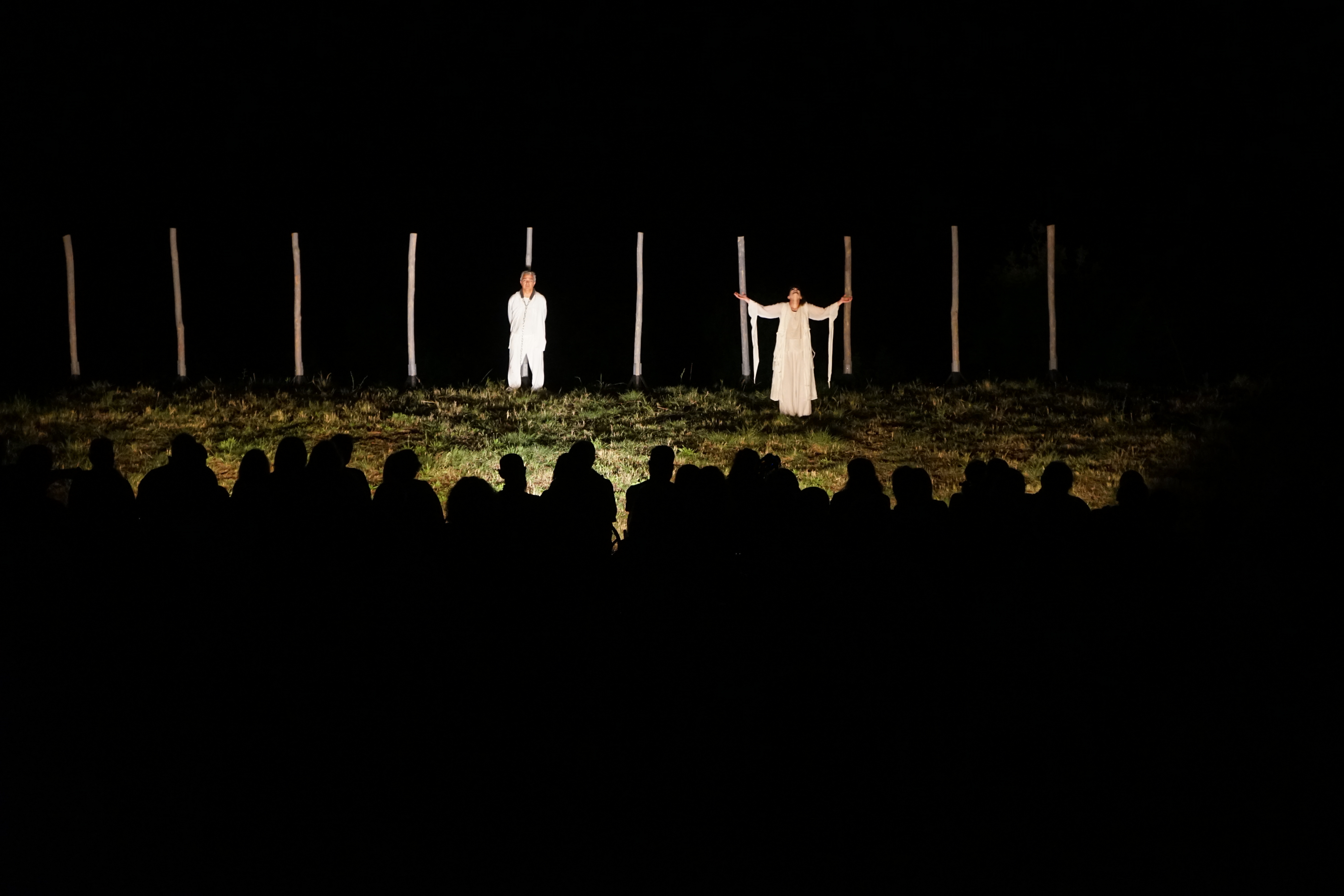 The Face of Medusa, theatre performance of the Pagasus Theatre at Leibethra Park 2020